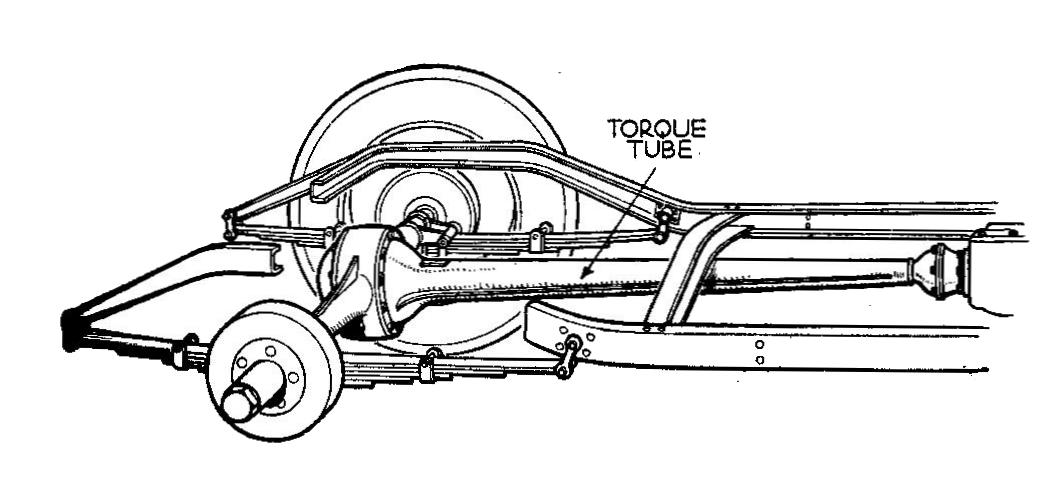 Torque tube axle (Autocar Handbook, 13th ed, 1935).jpg